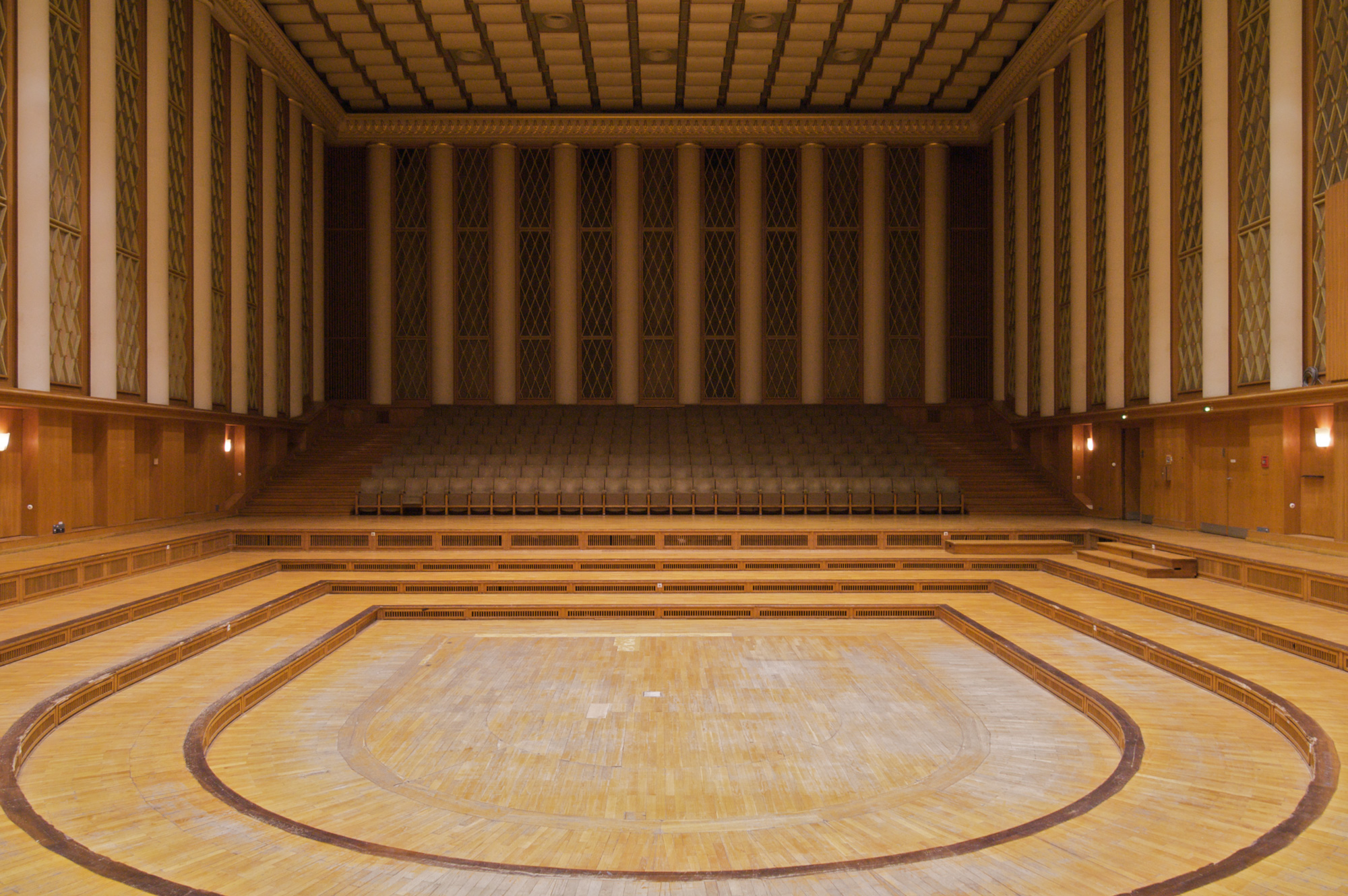 View from the stage “Großer Sendesaal 1”This is a photograph of an architectural monument.